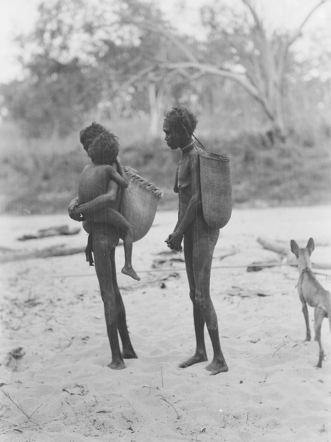 Two women carrying large plaited baskets suspended from a band around their heads. One of the women is also carrying a child. (Liverpool River, Arnhem Land, Northern Territory).